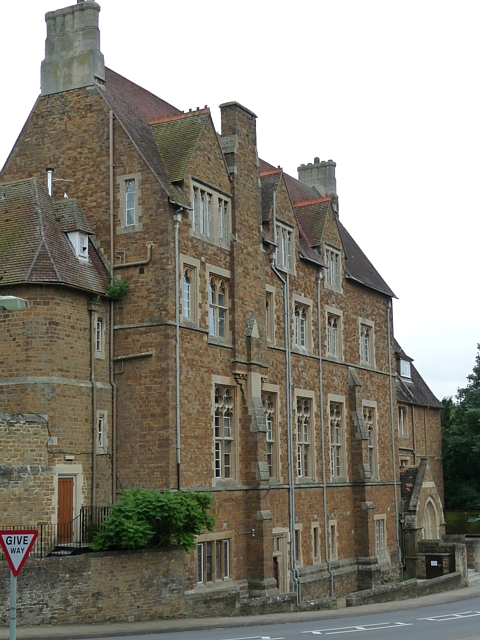 Bloxham School, Bloxham The sheer ironstone facade of the Dining Hall, by George Edmund Street, 1869. Grade II listed.